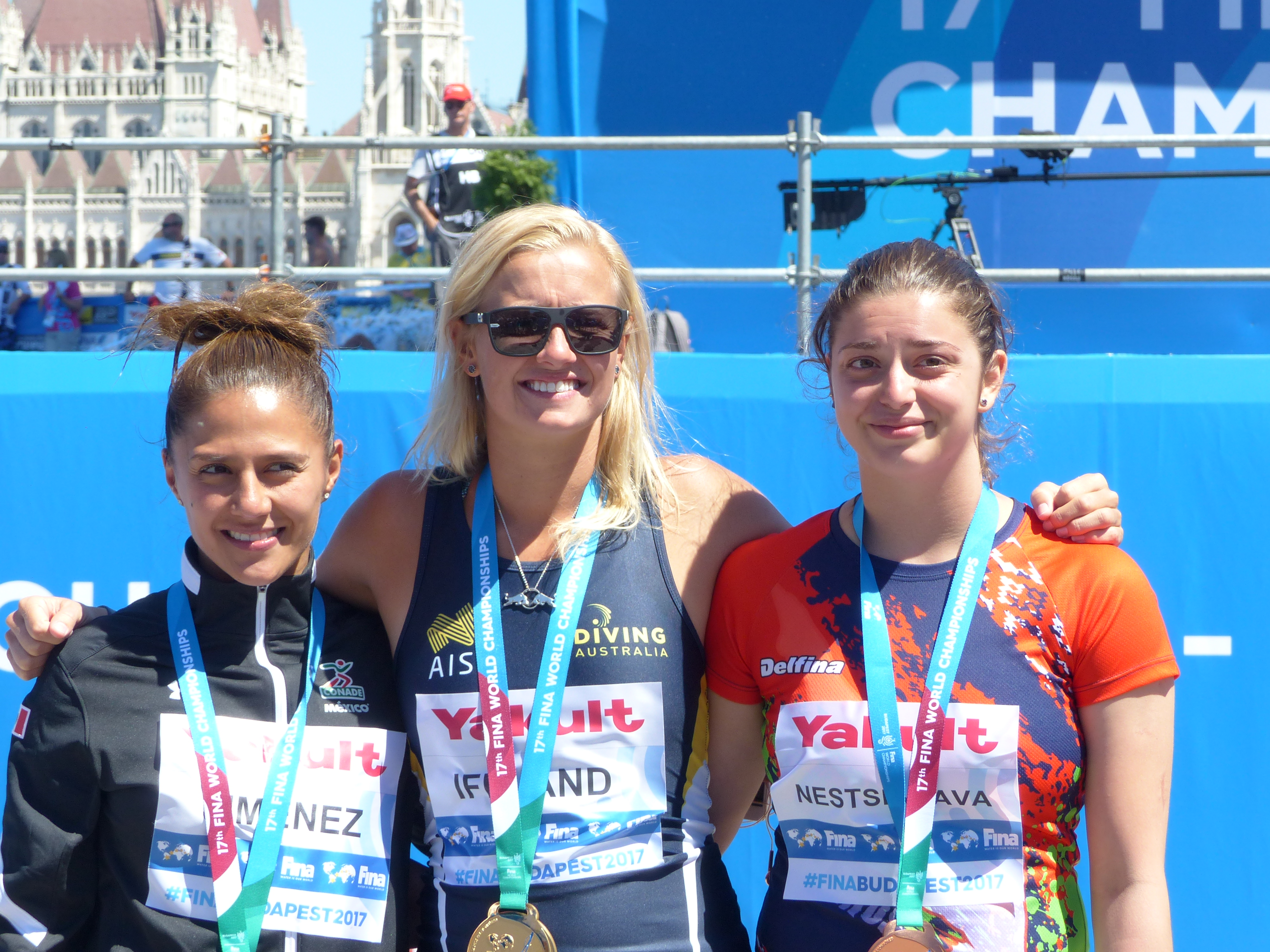 Taken on Saturday, 29th of July, 2017. 2017 World Aquatic Championships, Budapest, Hungary, Central Europe. Women’s 20m High Dive Final Resultsː Rhiannan Iffland, AUS, 320.70, Adriana Jimenez, MEX, 308.90, Yana Nestsiarava, BLR, 303.95, Tara Tira, USA, 299.50, Anna Bader, GER, 283.40